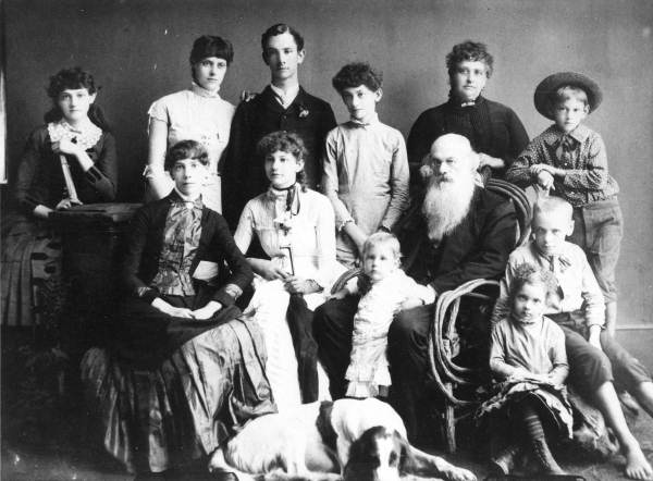 Local call number: PR01699 Title: Portrait of Confederate General Edmund Kirby-Smith and his wife with all their children but the youngest Date: ca. late 1800s General note: General Smith is seated, with a child standing before him. Physical descrip: 1 photoprint; b&w; 10 x 8 in. Series Title: Print collections Repository: 500 S. Bronough St., Tallahassee, FL 32399-0250 USA. Contact: 850.245.6700. Persistent URL